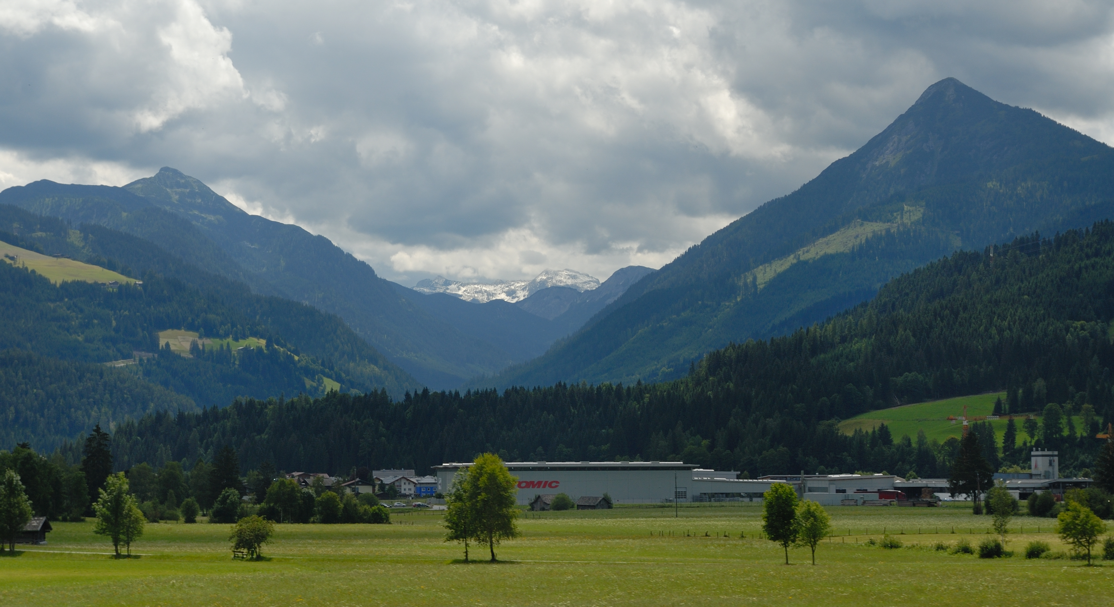 Atomic Skis plant in Altenmarkt. Road shot from B 99. View into Enns valley.